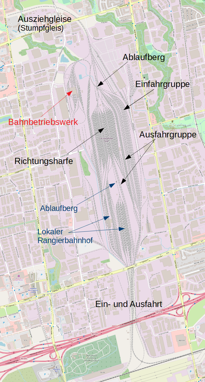 Canadian National Railway MacMillan Yard in the Greater Toronto Area (Vaughan (Ontario))